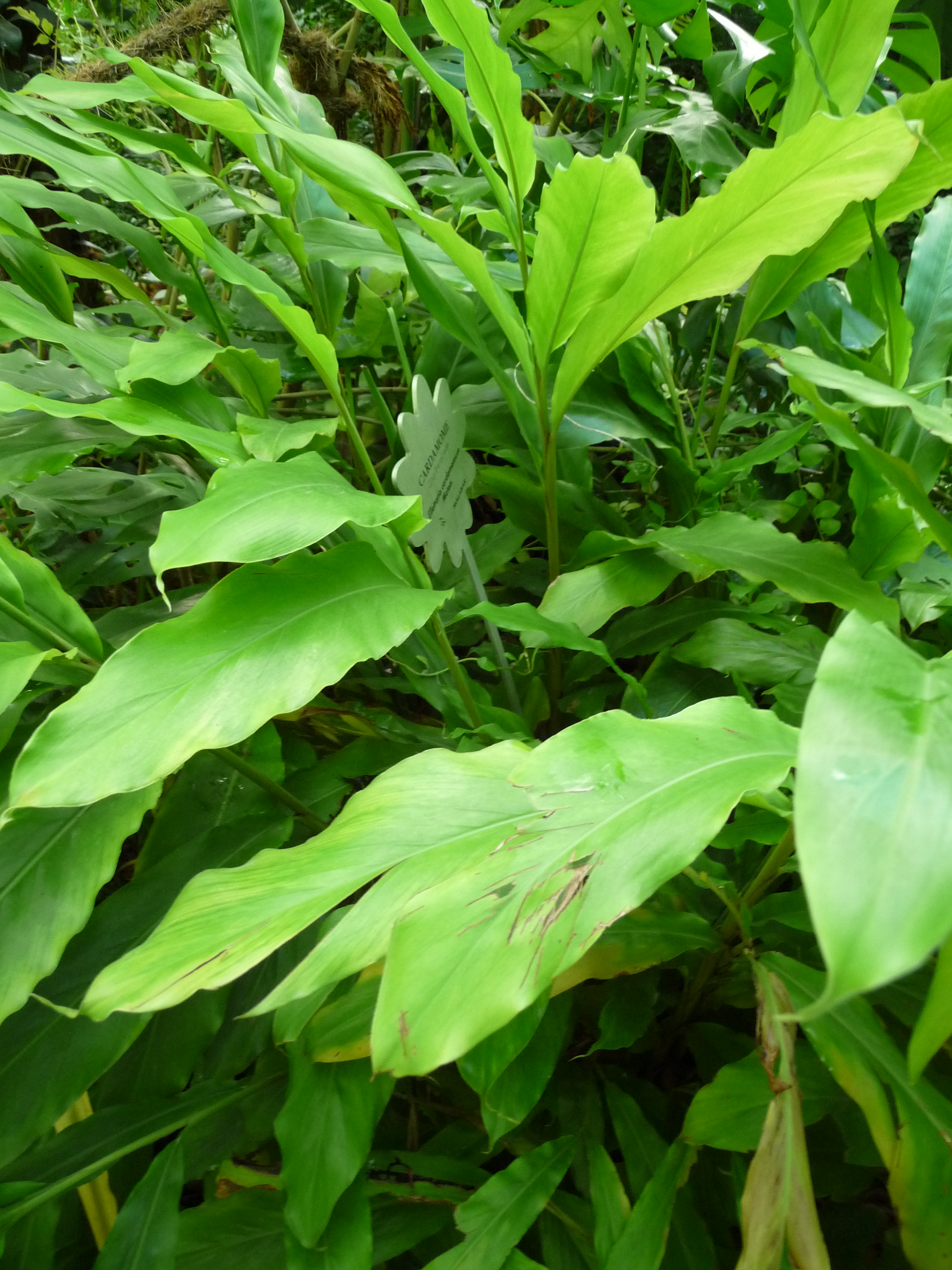 Elettaria cardamomum Maton. - Jardin des Olfacties - Coëx - Vendée - France